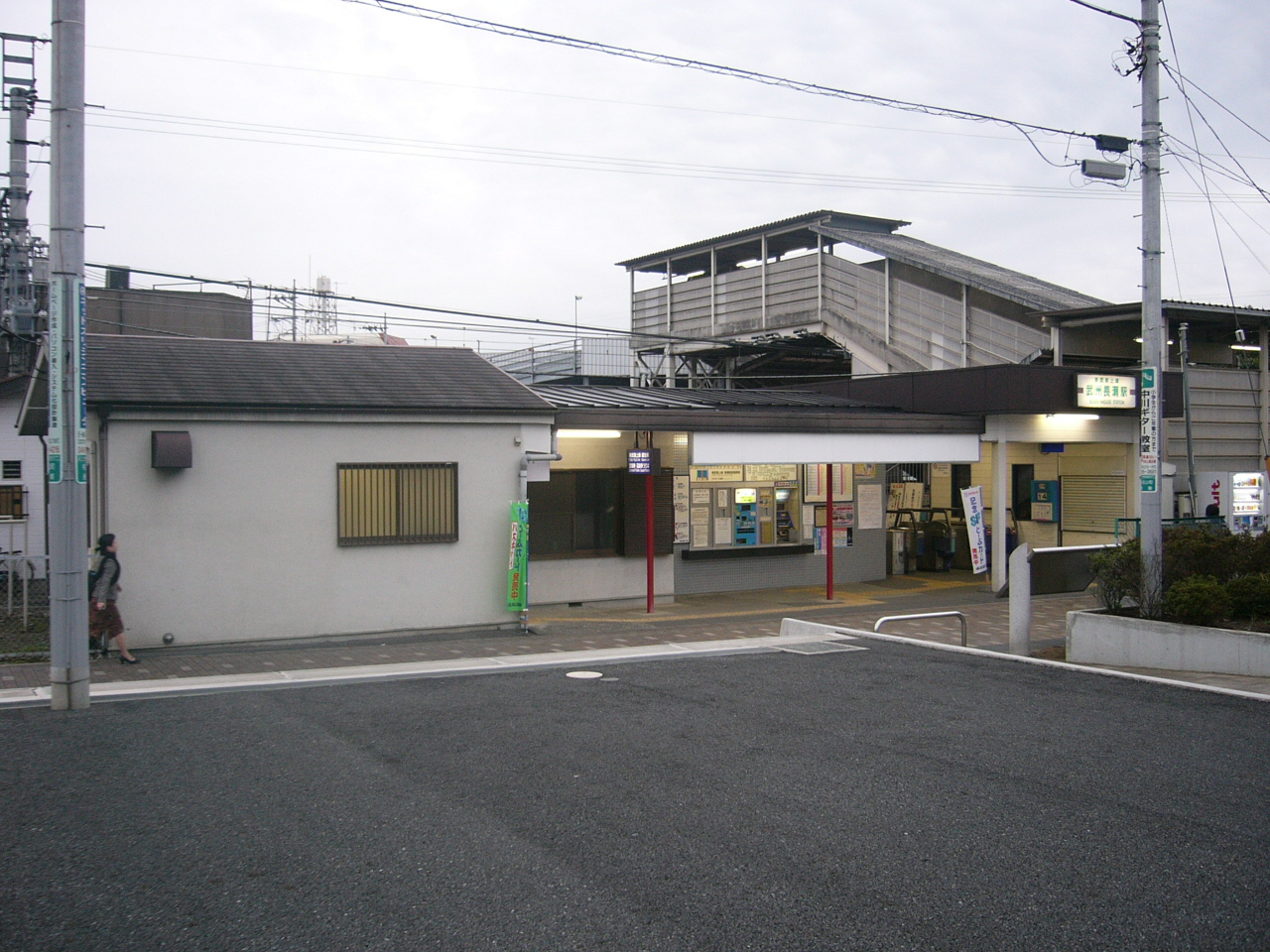 Bushu-nagase Station